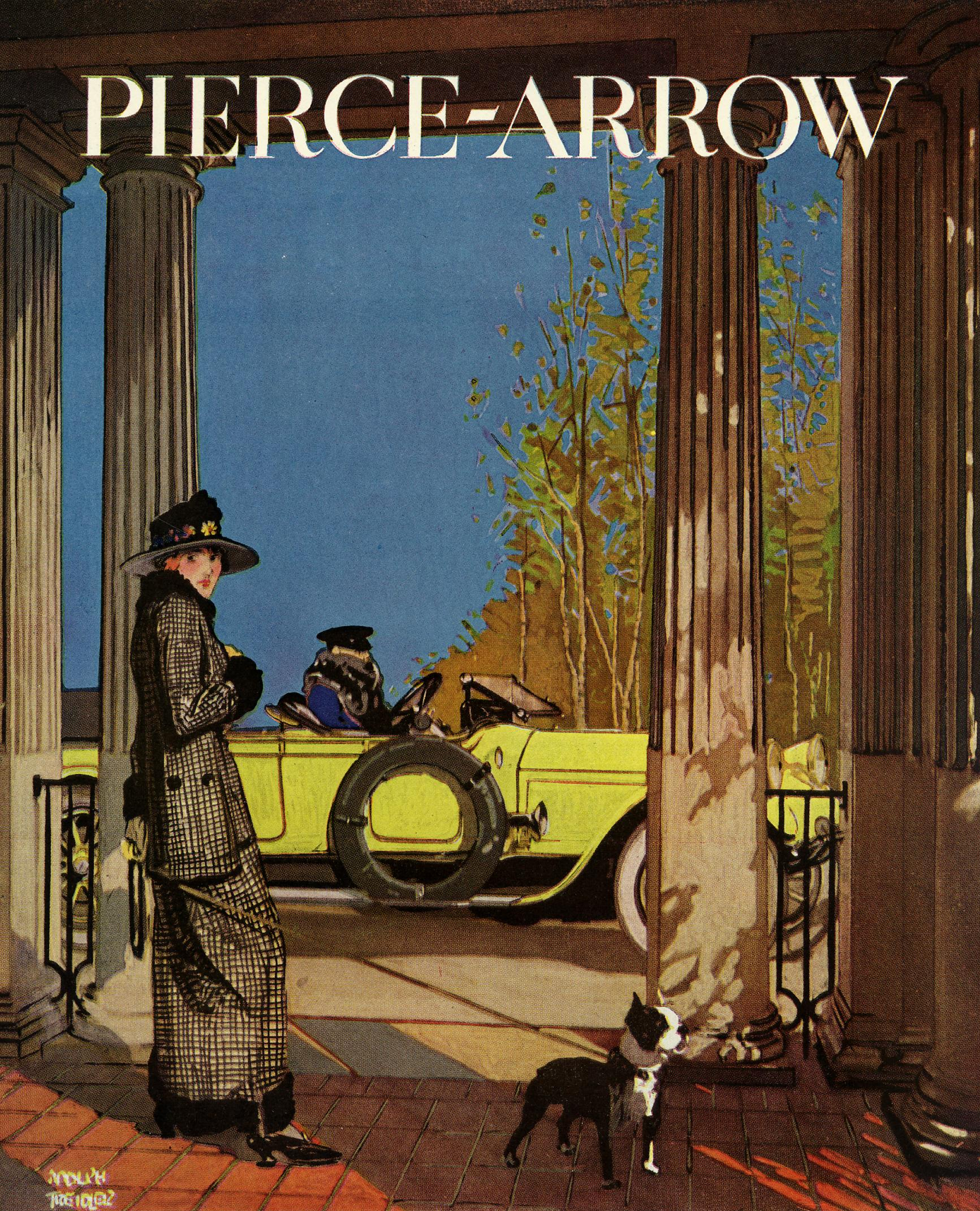 Pierce-Arrow auto ad, from 1919 magazine; found, scanned and uploaded by Infrogmation from copy of June 26, 1919 "Life" magazine in own collection. This file was transfered from . The original file description page is (was) here. (20:05, 27 June 2003) . . User:Infrogmation (Infrogmation) (User talk:Infrogmation (Talk) ) . . 273x327 (33471 bytes) (Pierce-Arrow auto ad, from 1919 magazine)